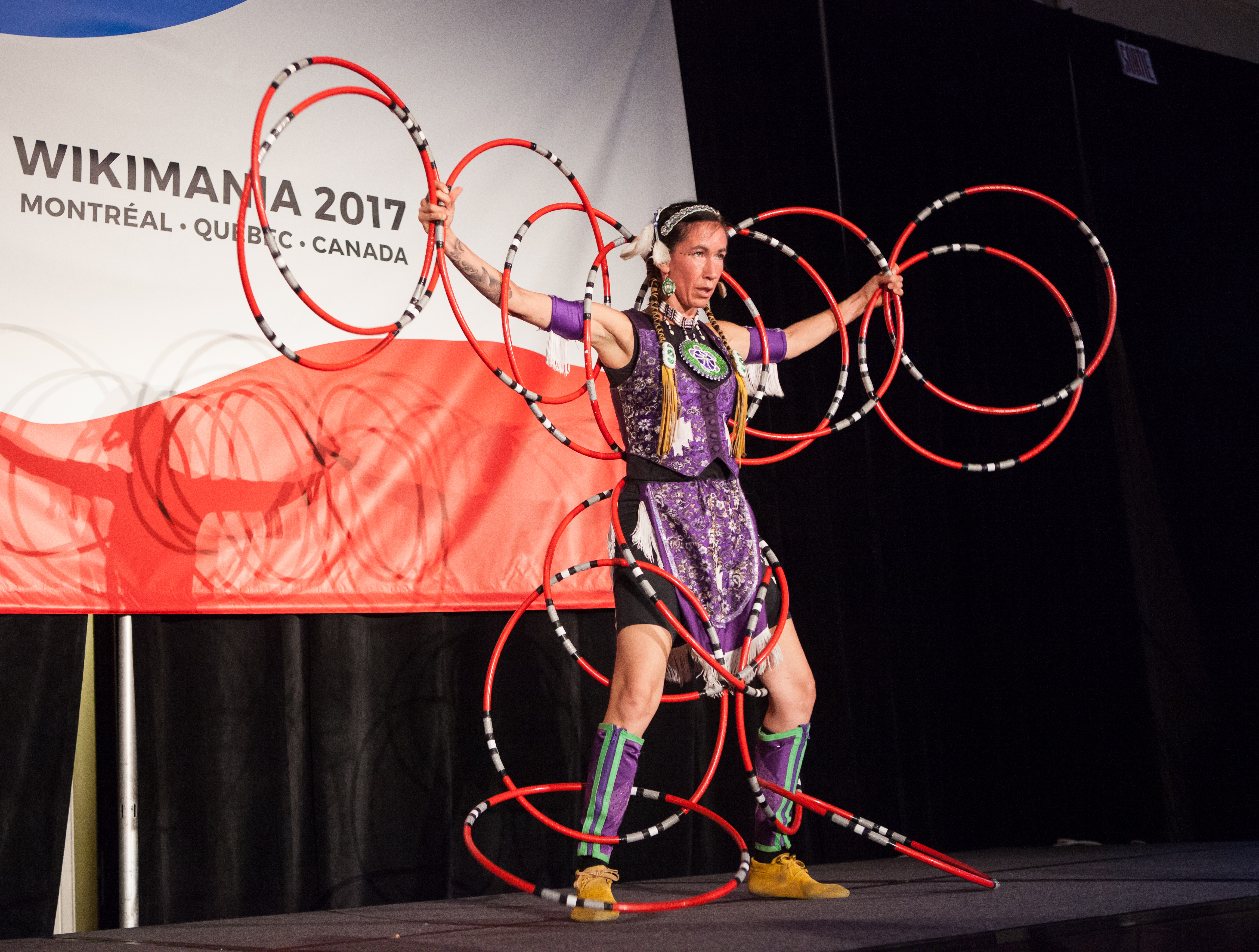 A dancer performs at the welcome reception for Wikimania 2017.